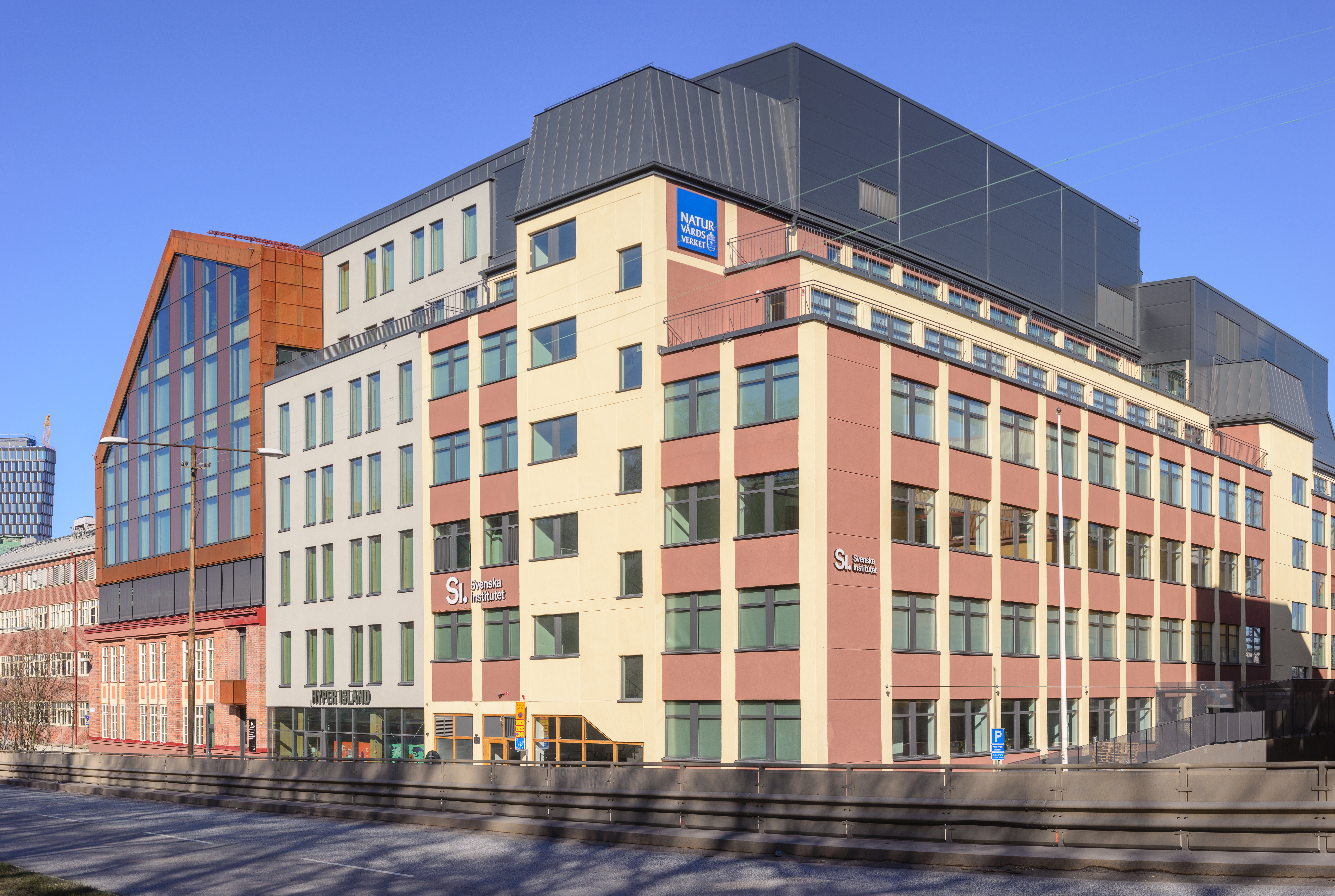 Trikåfabriken 9 is a office building in Hammarby sjöstad, Stockholm.